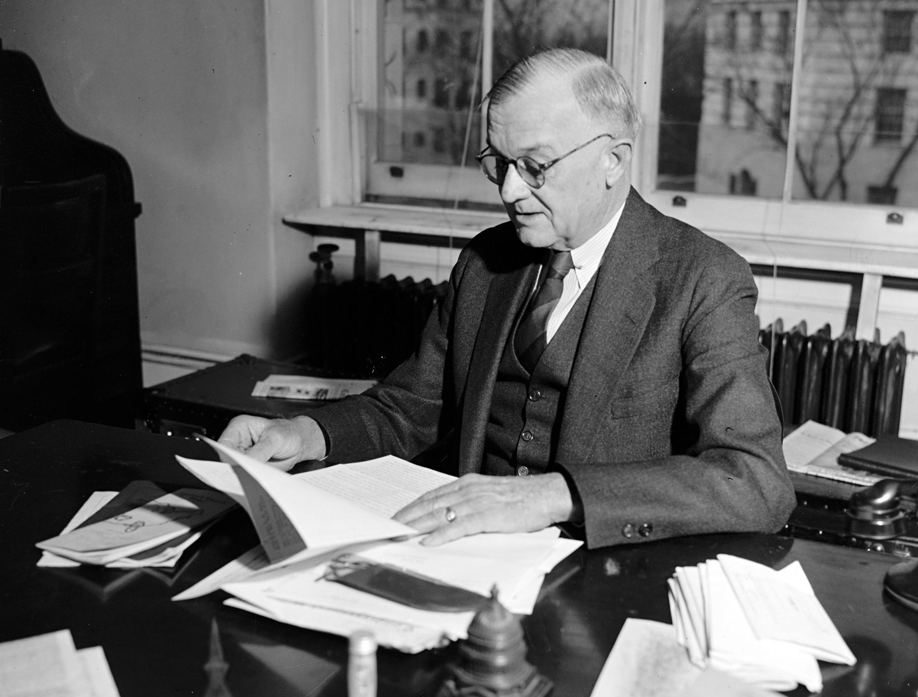 Emmett Marshall Owen, US Representative from Georgia